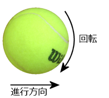 Topspin of a tennis ball (labeled in Japanese)